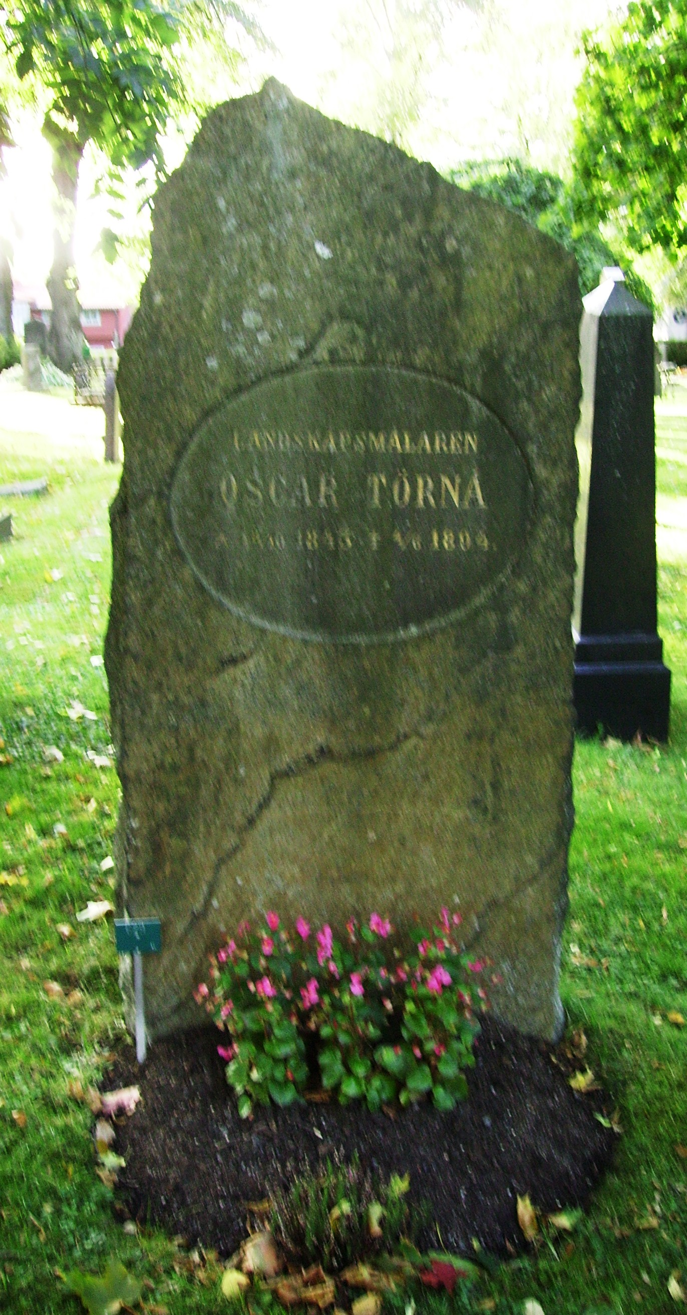 Picture of Oscar Törnå's grave at Solna kyrkogård